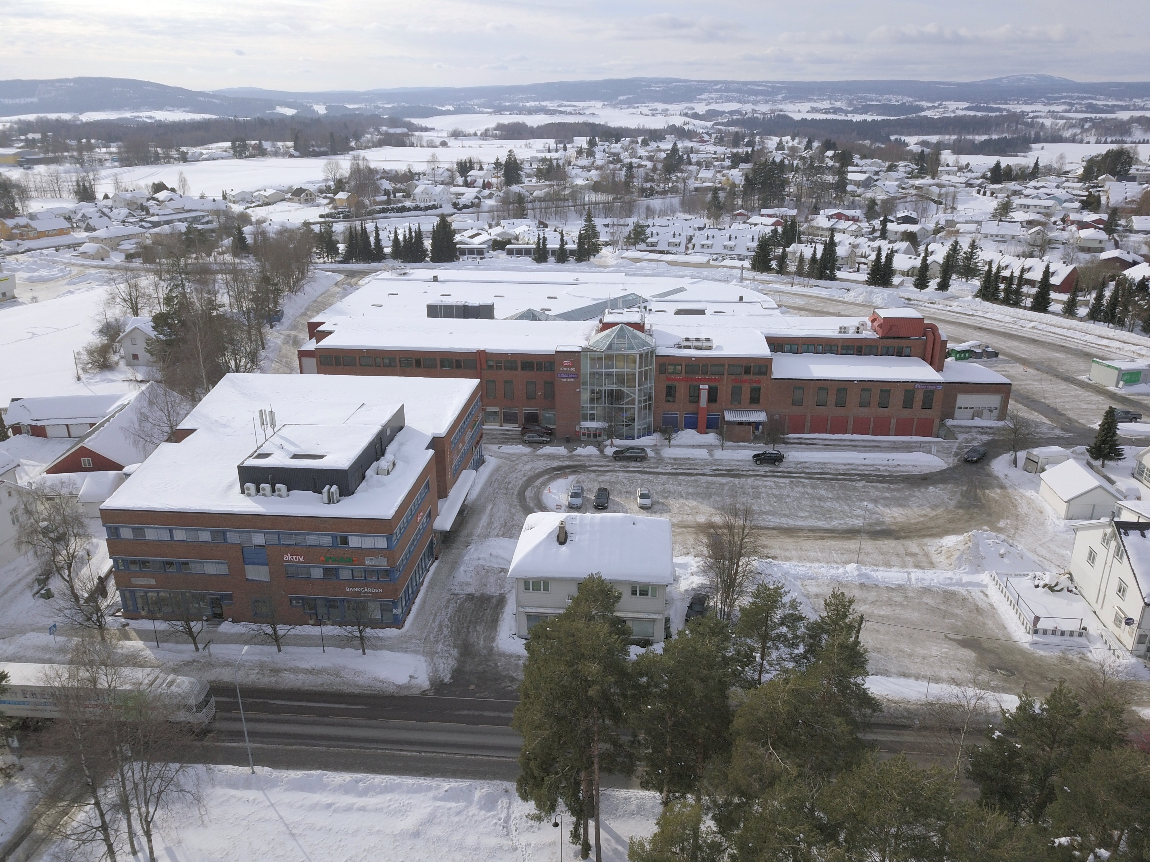 Romerikssenteret shopping center in Kløfta